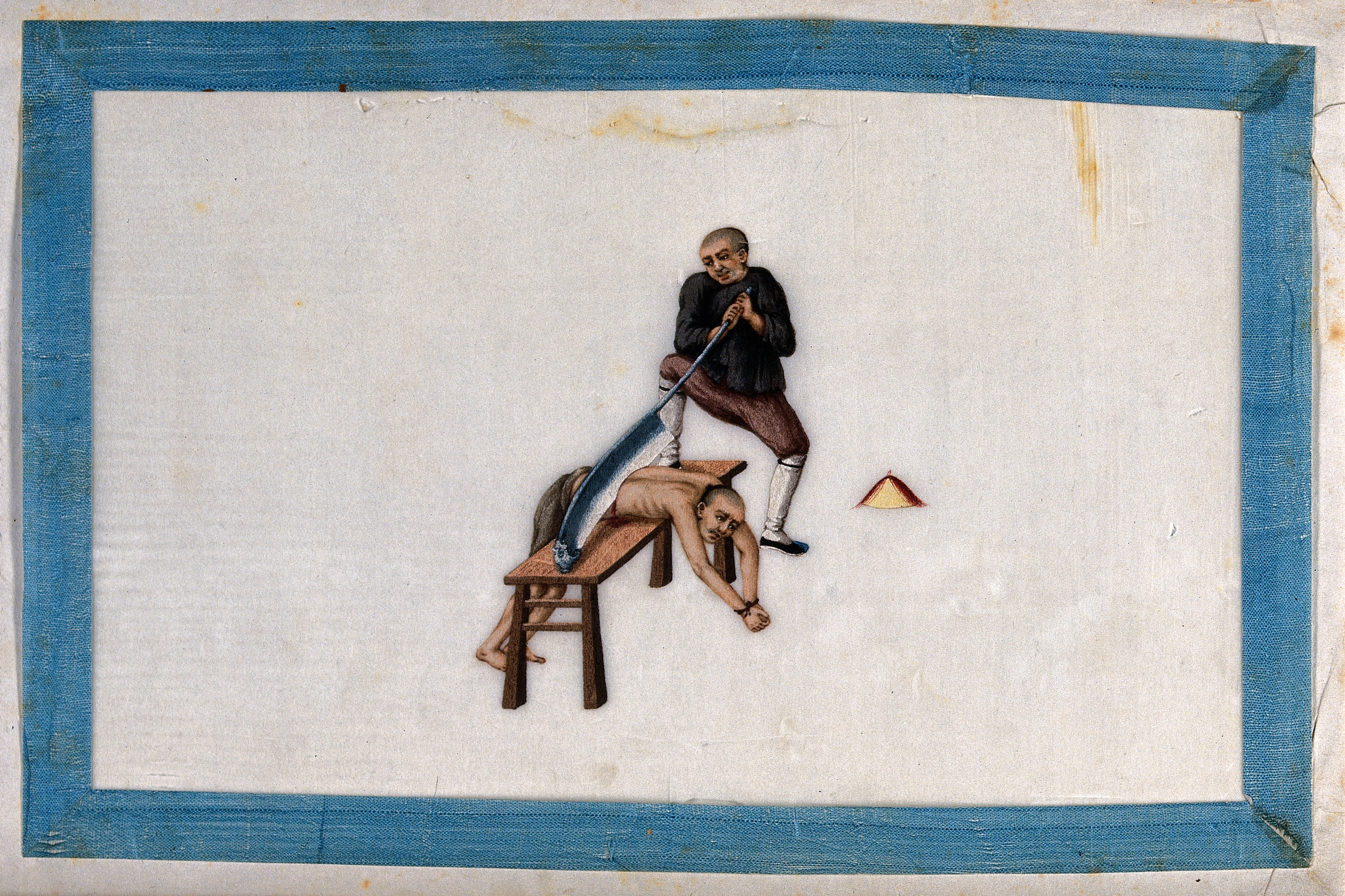 A Chinese prisoner is chopped in two by a man with a large blade. Iconographic Collections Keywords: Prisoners; Execution; China; Punishment; Torture